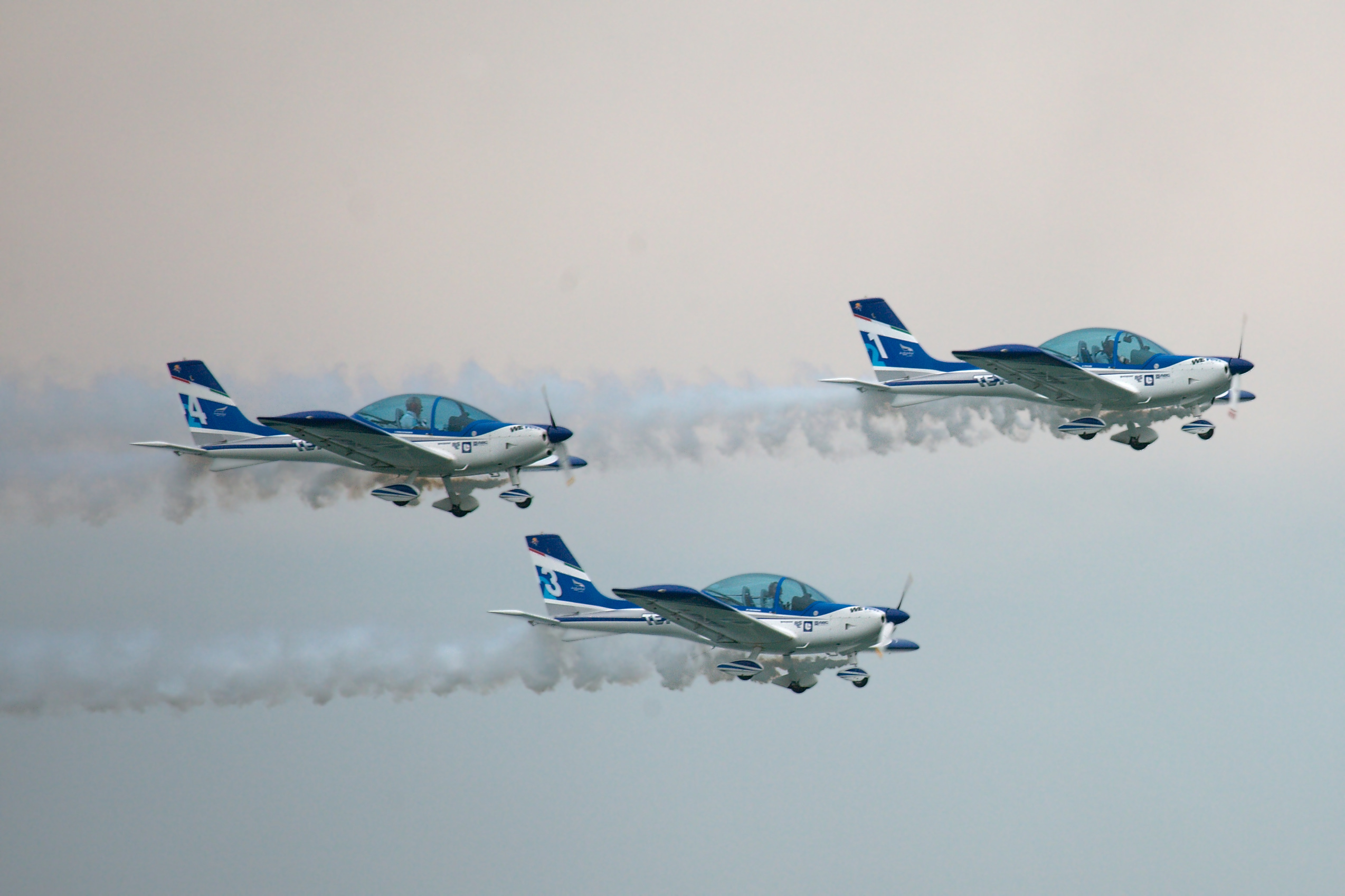 Flysynthesis Texan of "wefly! Team" during "Air Extreme" 29.08.2009 in Jesolo